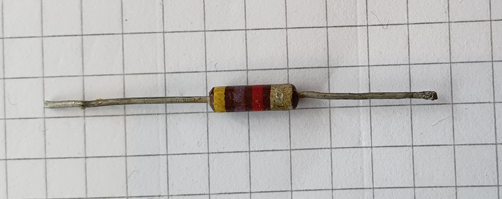 Carbon composition resistor with 4.7KOhm and 10% tolerance indicated by its color codes